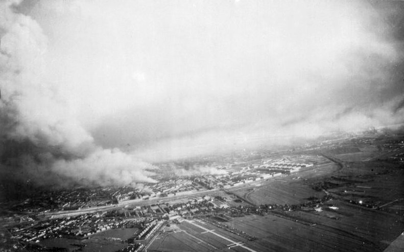 Rotterdam brennend, nach dem Bombenangriff Information added by Wikimedia users.